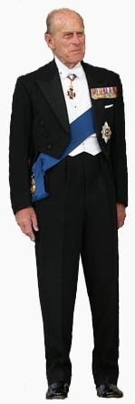 President George W. Bush and Mrs. Laura Bush welcome Her Majesty Queen Elizabeth II and His Royal Highness Prince Philip, Duke of Edinburgh, Monday, May 7, 2007, upon their arrival to the North Portico of the White House for a State Dinner in their honour. White House photo by Eric Draper.